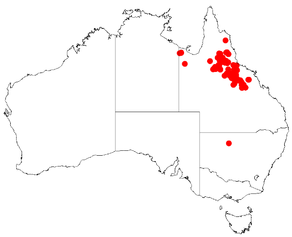 Acacia lazaridis Occurrence data from Australasia Virtual Herbarium downloaded from on 8 December 2018